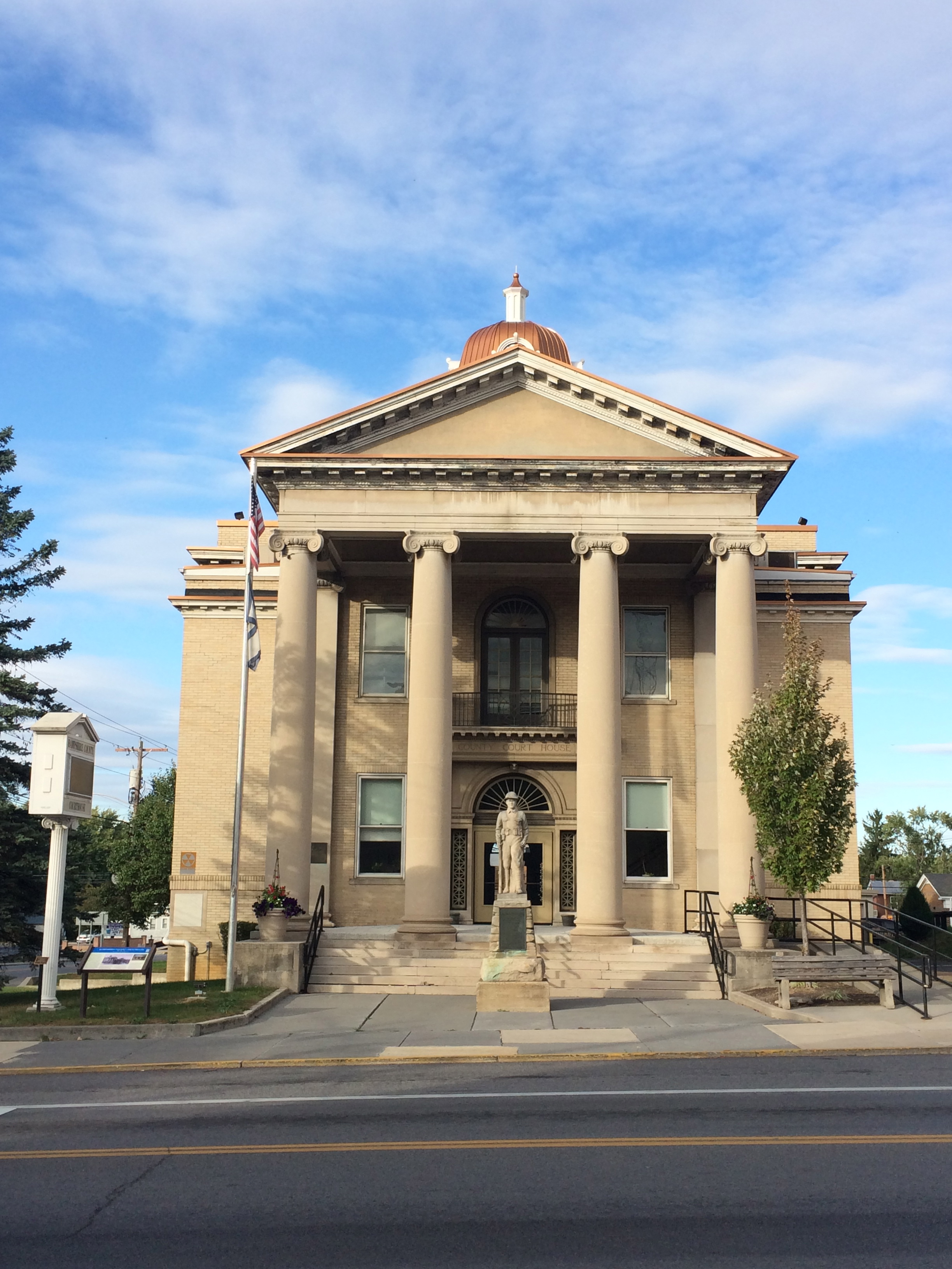 The Hampshire County Courthouse in Romney, West Virginia, following the restoration of its dome. Photographed by Justin A. Wilcox of Washington, D.C. on October 5, 2014.